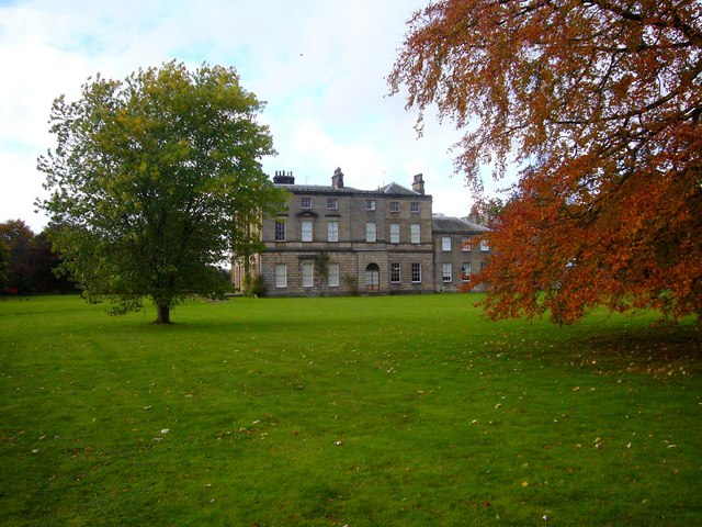 Bywell Hall An impressive country house built in 1766 by James Paine.